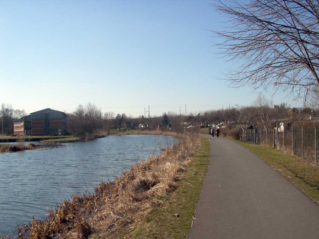 the towing route at Finowkanal at km 76.7 in the city centre of Eberswalde. on the left side the waterway office